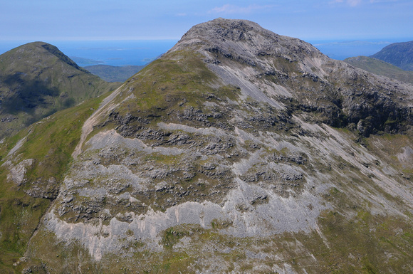 Summit of Benbaun seen from Bencullaghduff, Twelve Bens, Connemara, Ireland; Muckanaght is in the background left